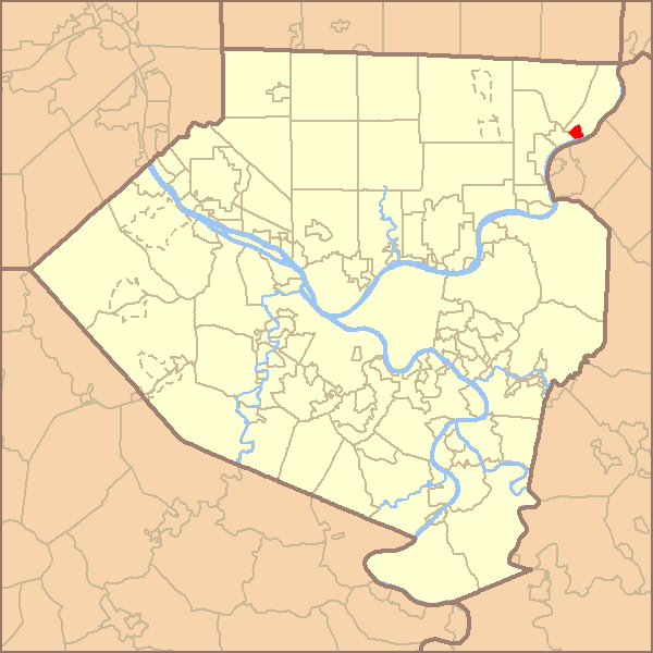 Map highlighting the municipality within Allegheny County, Pennsylvania.